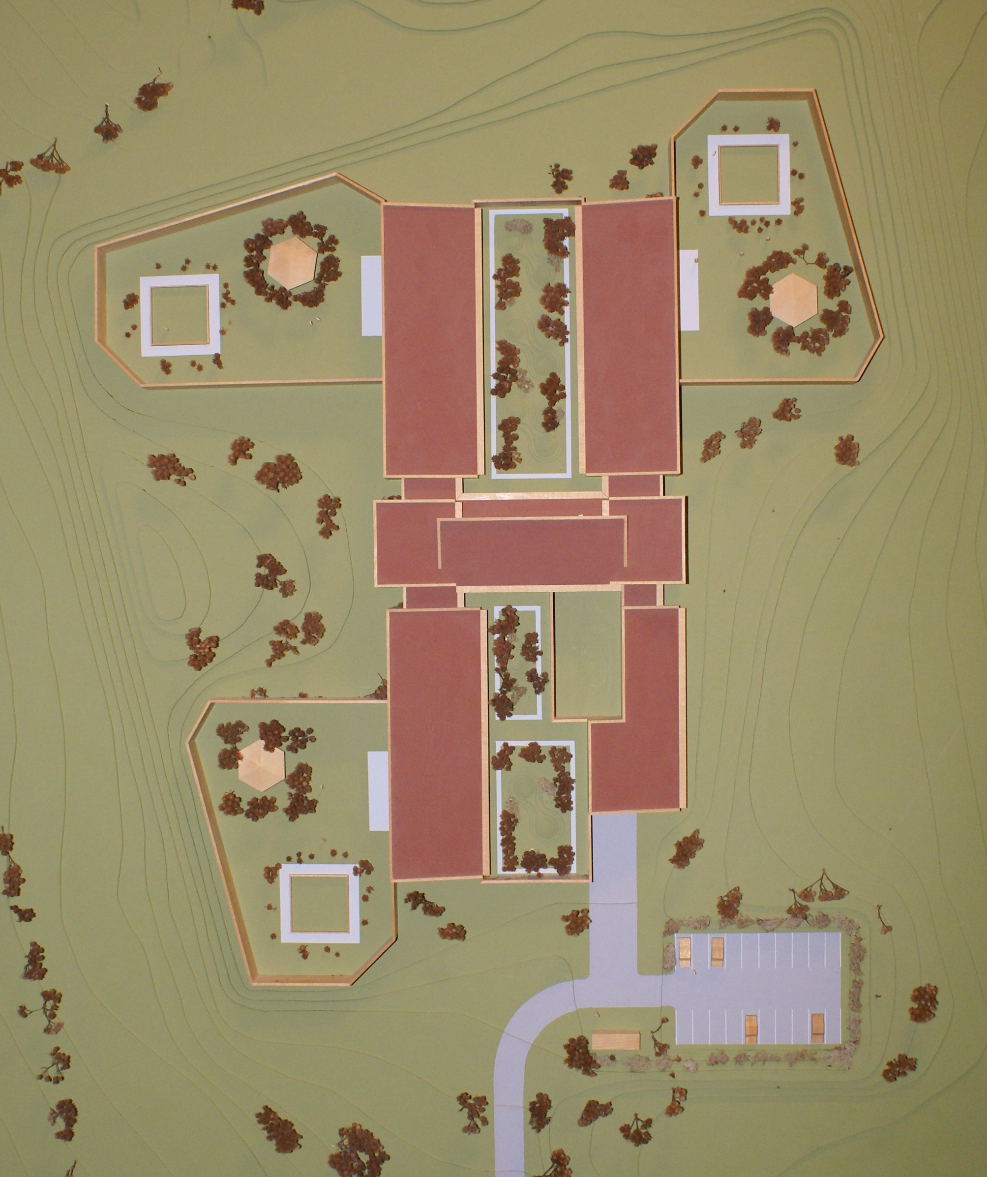 A model of Sikringen. Placed at the psychiatric museum.